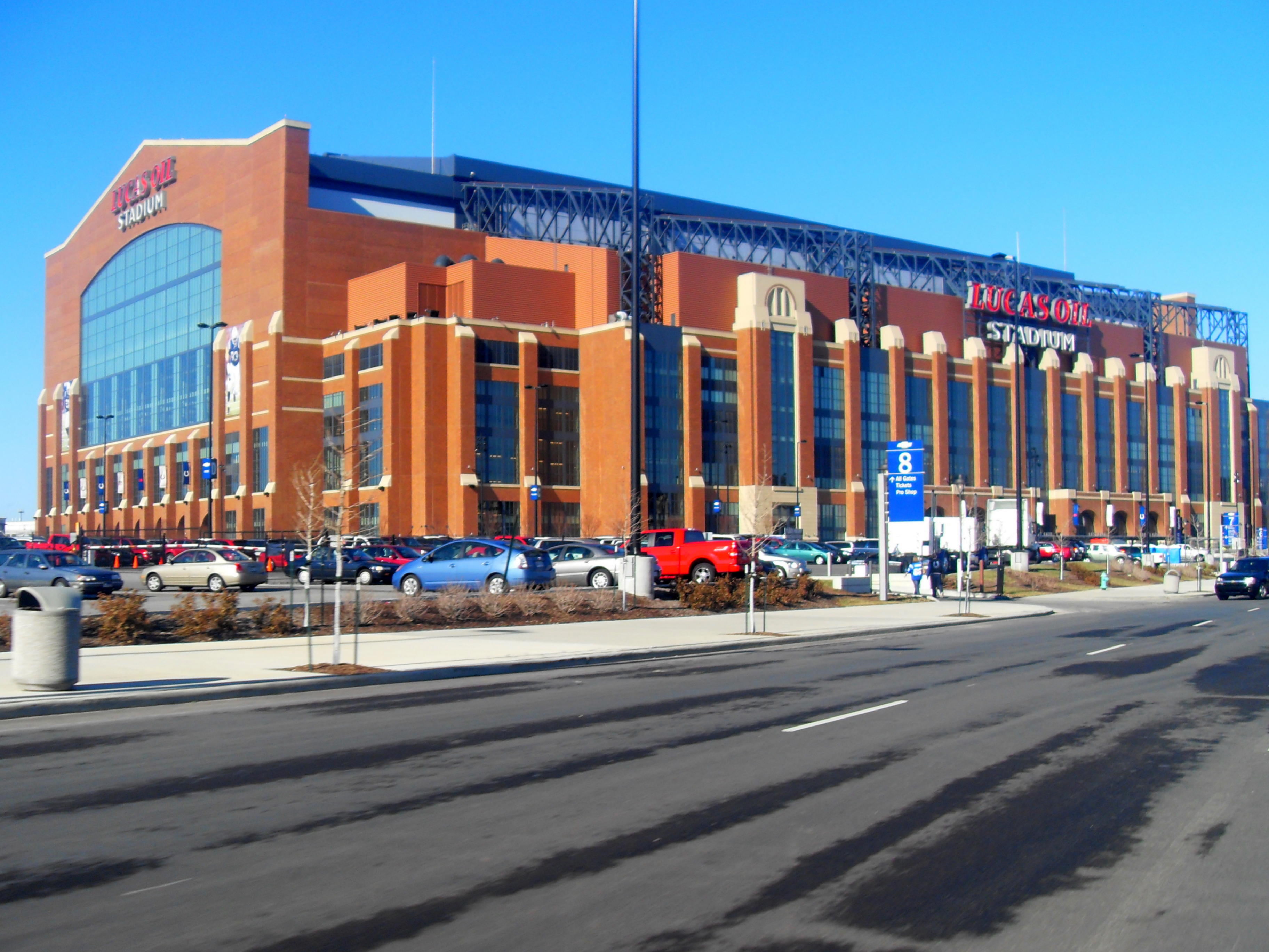 Photo taken while driving by the stadium